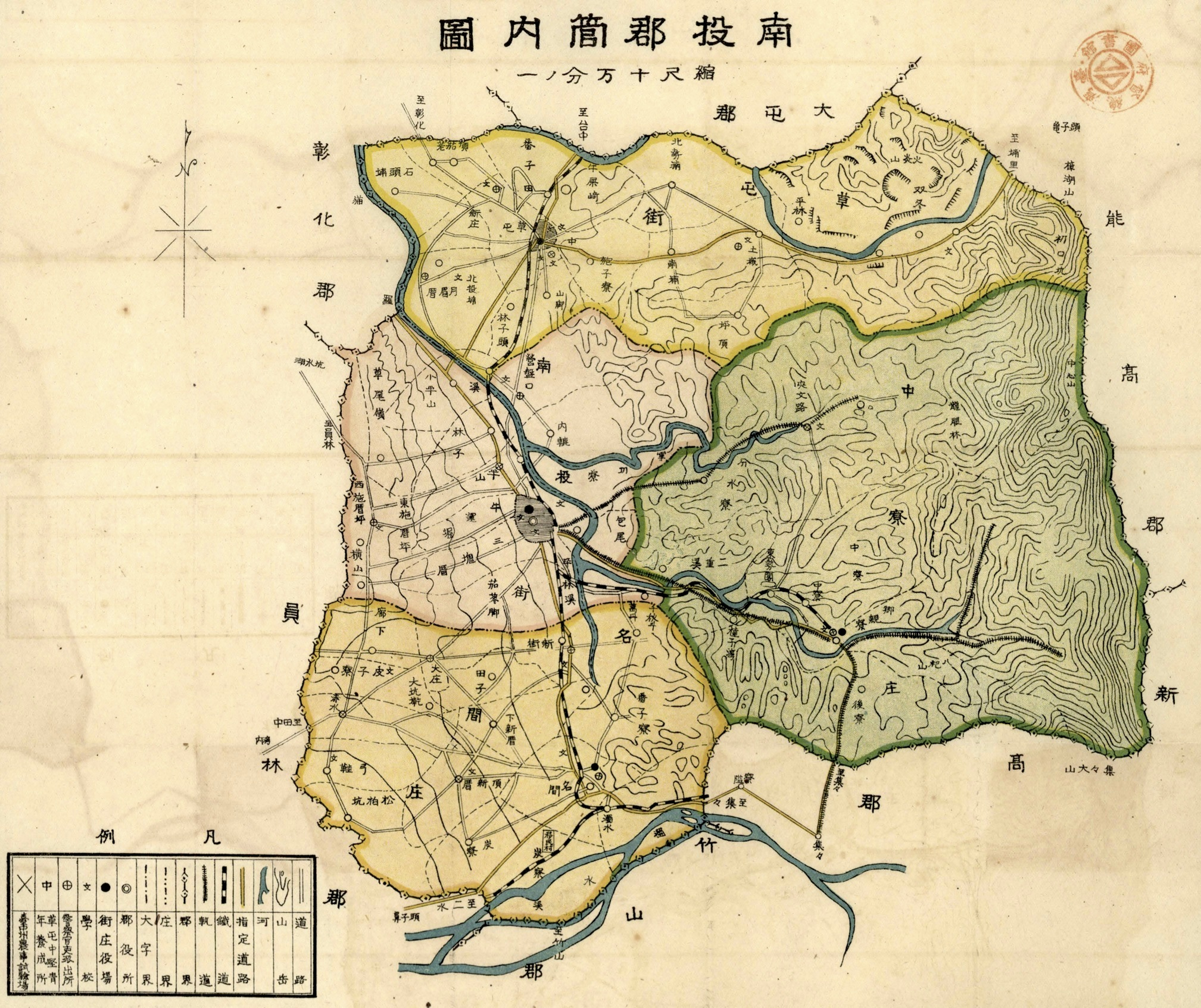 Map of Nantō-gun